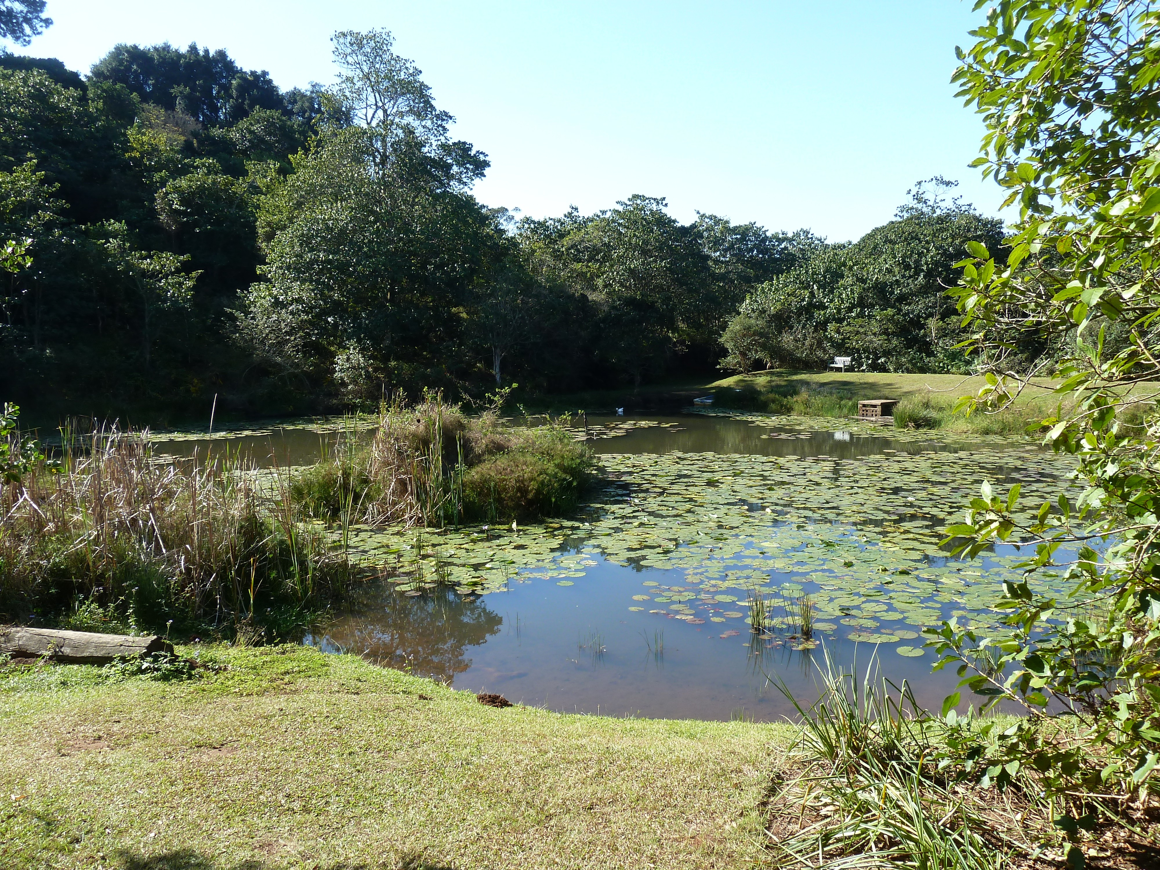 Dam in the mPhiti stream, a tributary of the Molweni, in Iphithi Nature Reserve, Gillitts, KZN